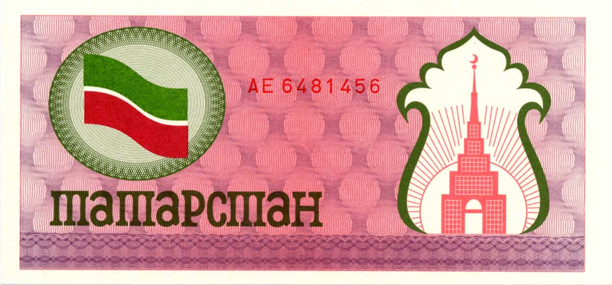 100 roubles du Tatarstan